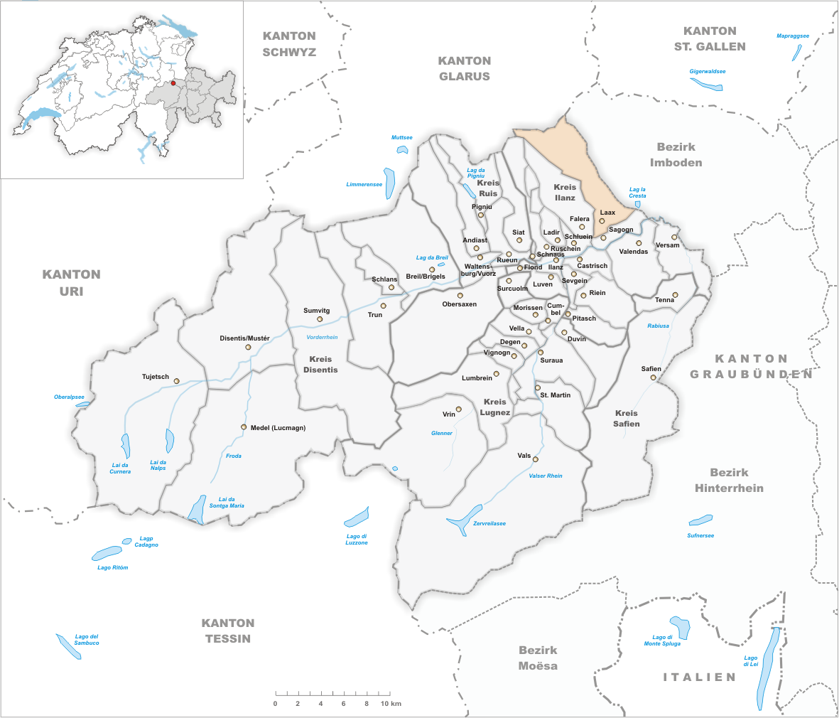 Municipality Laax